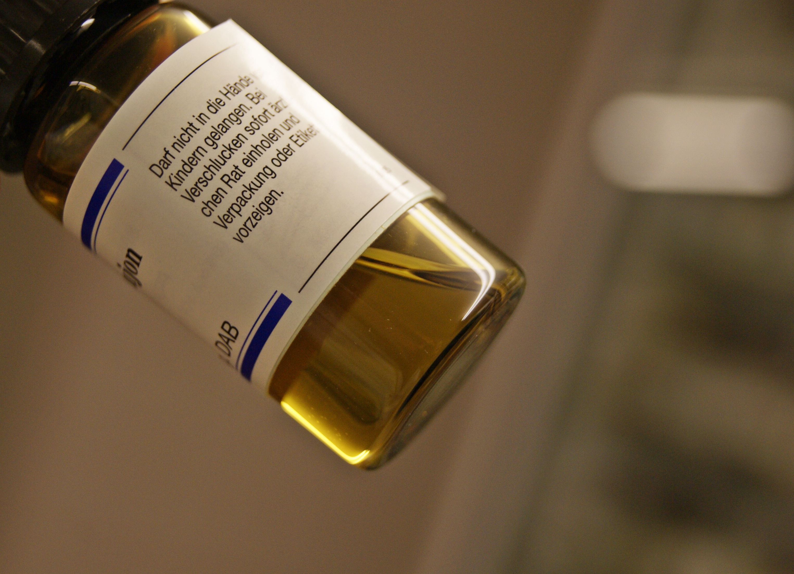 Thujone